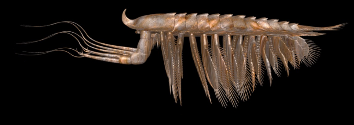 Crop of file in filename